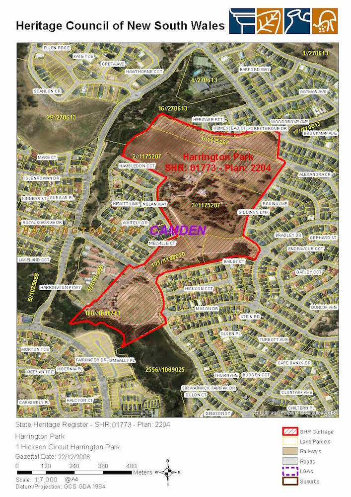 Harrington Park (homestead): SHR Plan 2204